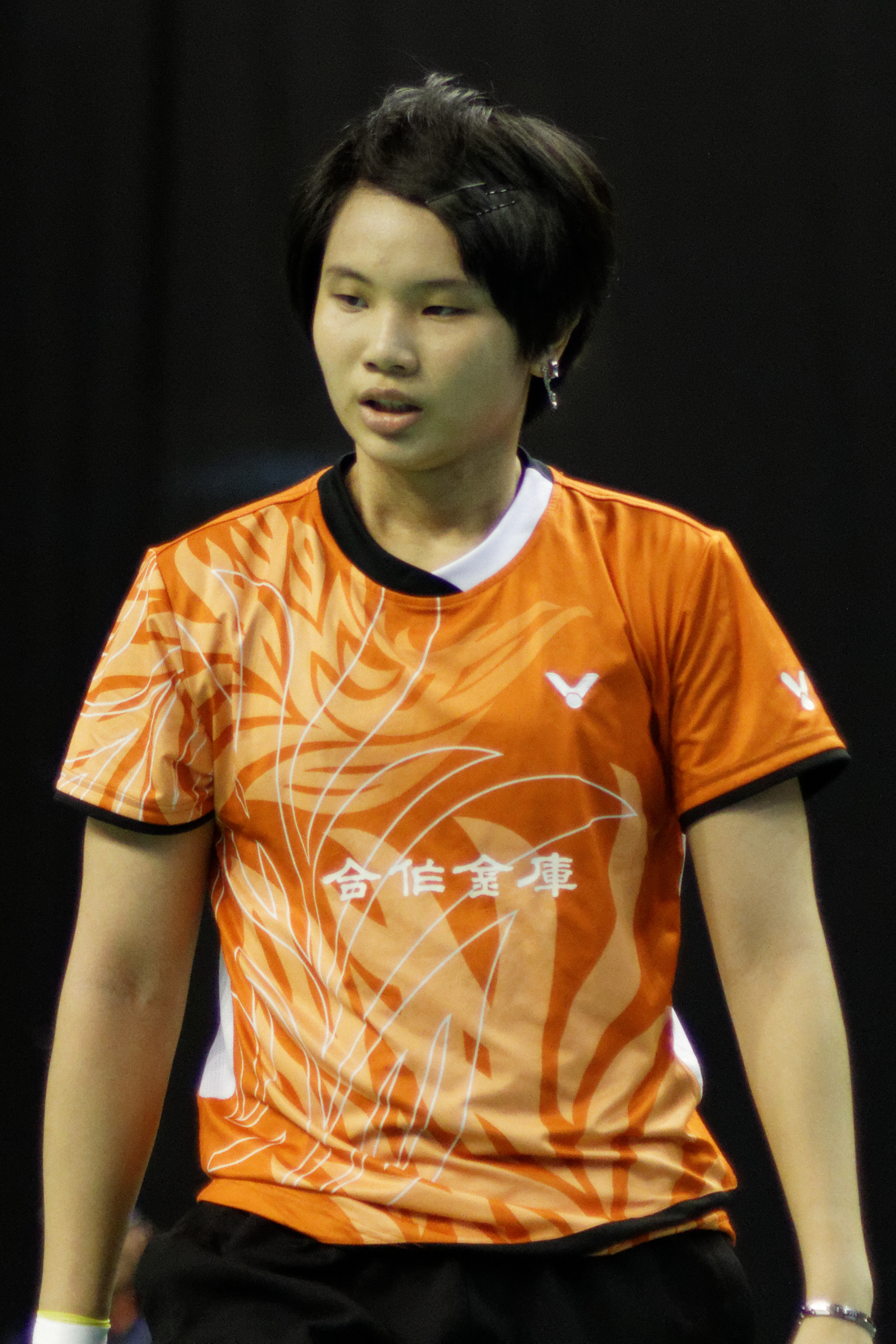 2013 French open. Women's singles quarterfinal. Kirsty Gilmour vs Tai Tzu-ying.